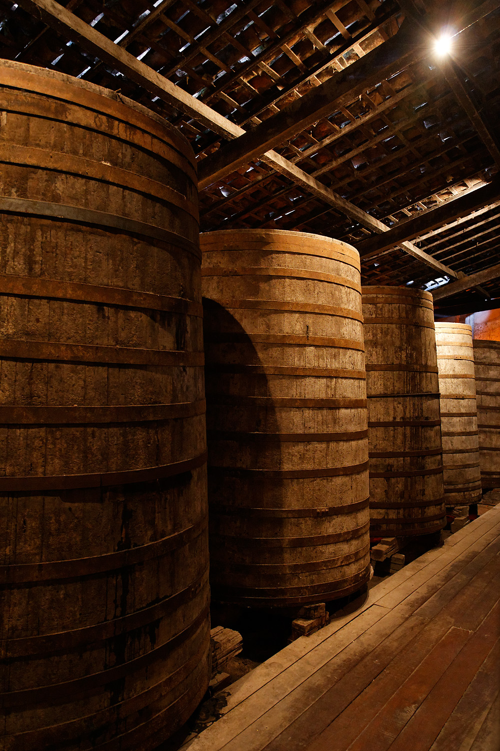 Wood barrels of cachaça in Ypióca's Museum of Cachaça at Maranguape, Ceará, Brazil.